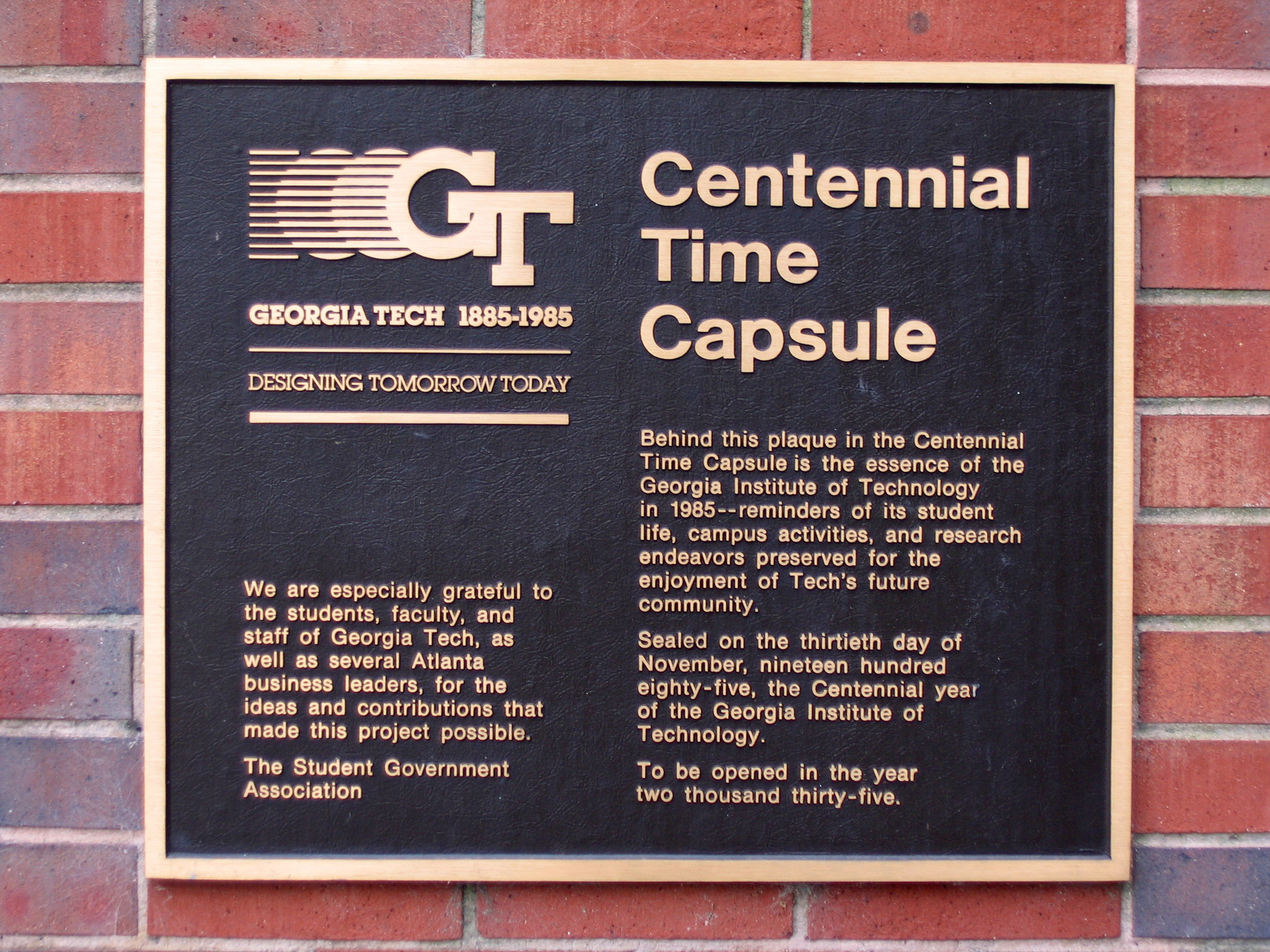 Description: A time capsule built into an outside wall of Georgia Tech's student center. Source: I, User:Disavian, took this picture on 2007-05-27